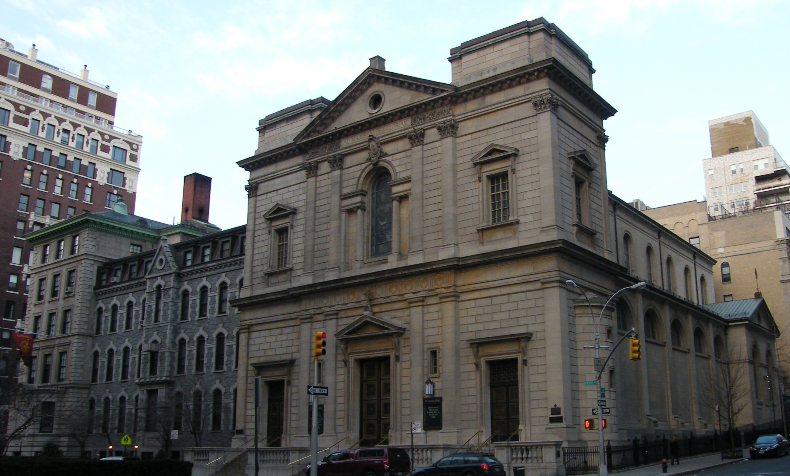 Loyola Complex on National Register of Historic Places in New York City